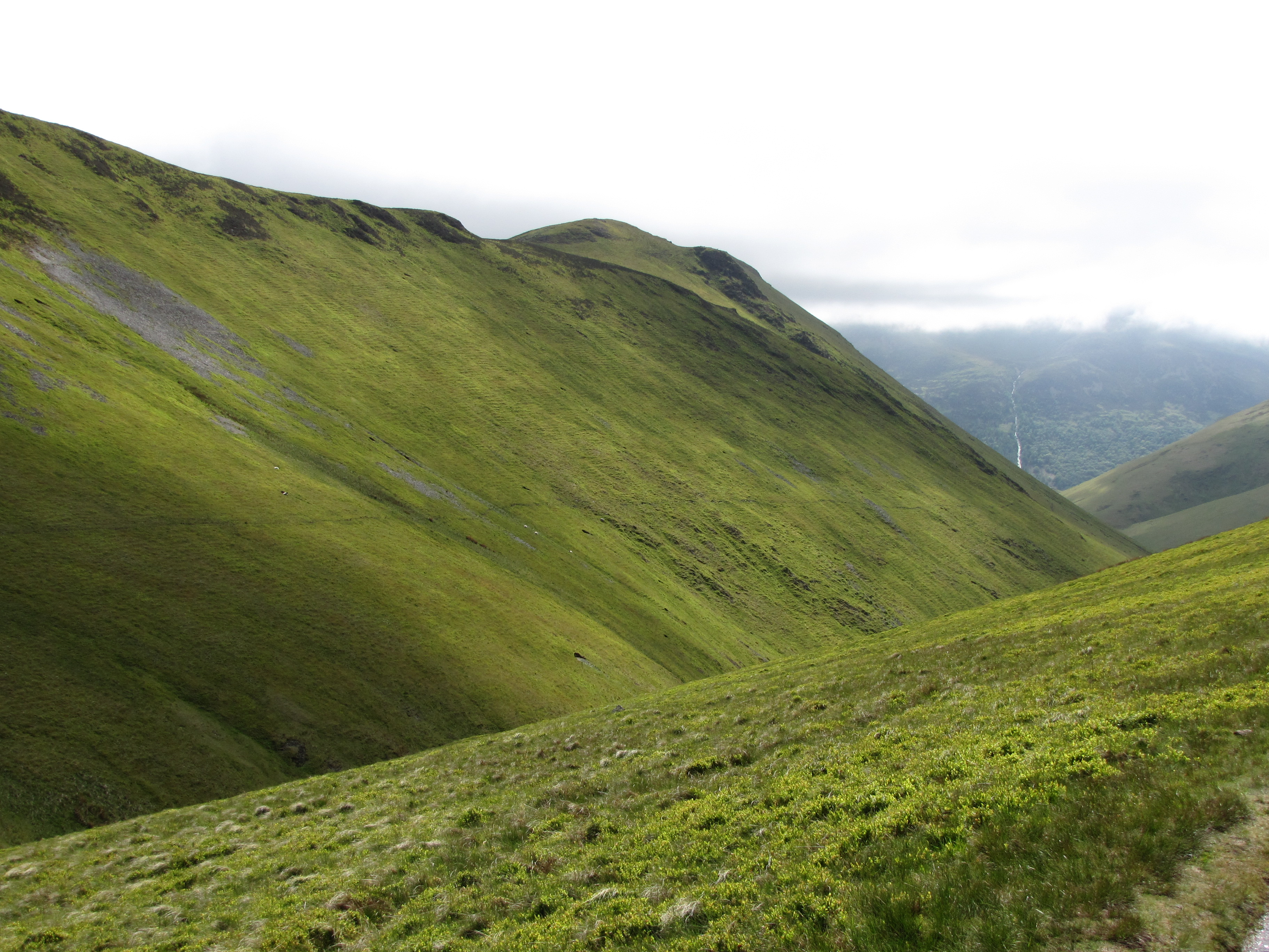 Knott Rigg seen from the valley of Rigg Beck in the English Lake District